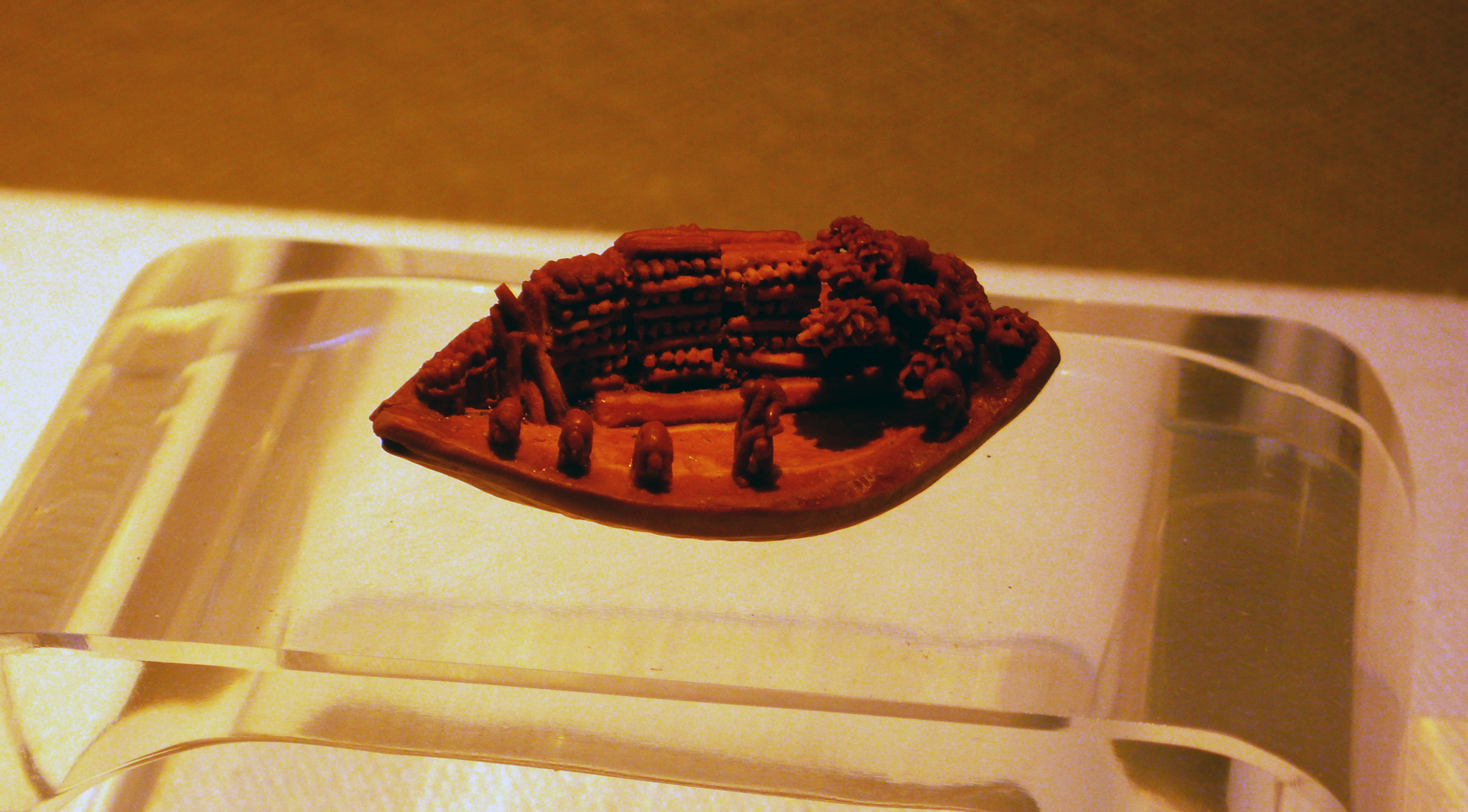 Chinese olive core carving of children playing leapfrog.